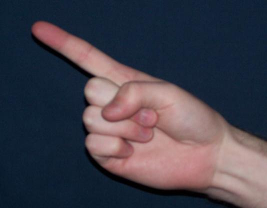 Depicts Index Finger Pointing.